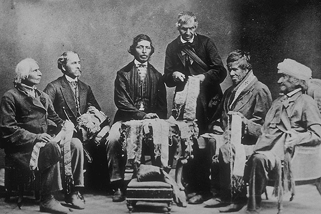 Iroquois Chiefs from the Six Nations Reserve reading Wampum belts in Brantford, Ontario. Left to right: Joseph Snow, Onondaga Chief; George Henry Martin Johnson, father of Pauline Johnson, Mohawk John Buch, Onondaga; John Smoke Johnson, father of George Henry Martin Johnson, Isaac Hill, Onondaga; John Senaca Johnson, Seneca. Photograph taken at Brantford, Ontario.